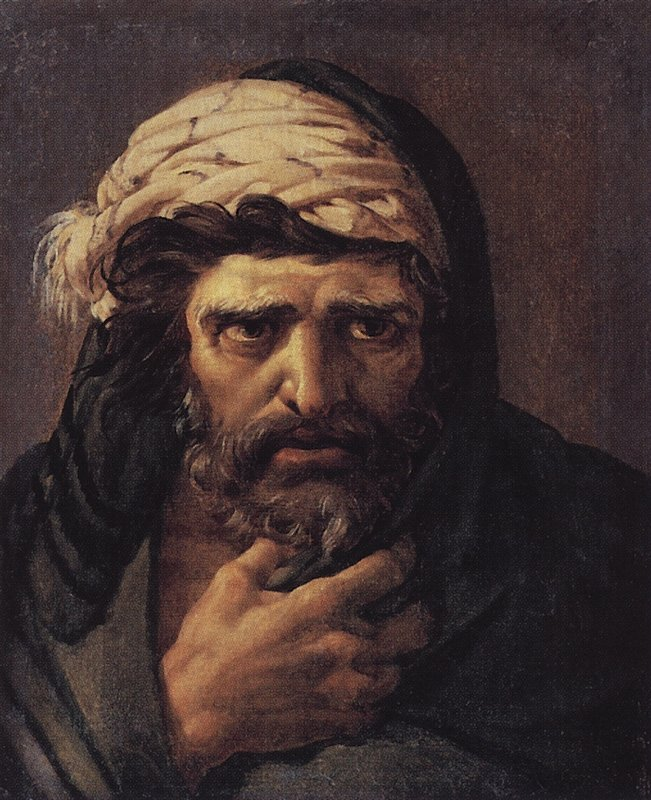 Head of Judas (study for "The Last Supper", by Nikolai Ge, early 1860s)